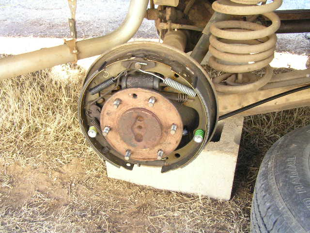 An 11" x 2" drum brake from a late 60's truck. Photo by Wes Kinsler 1970 C/10 Chevrolet pickup truck